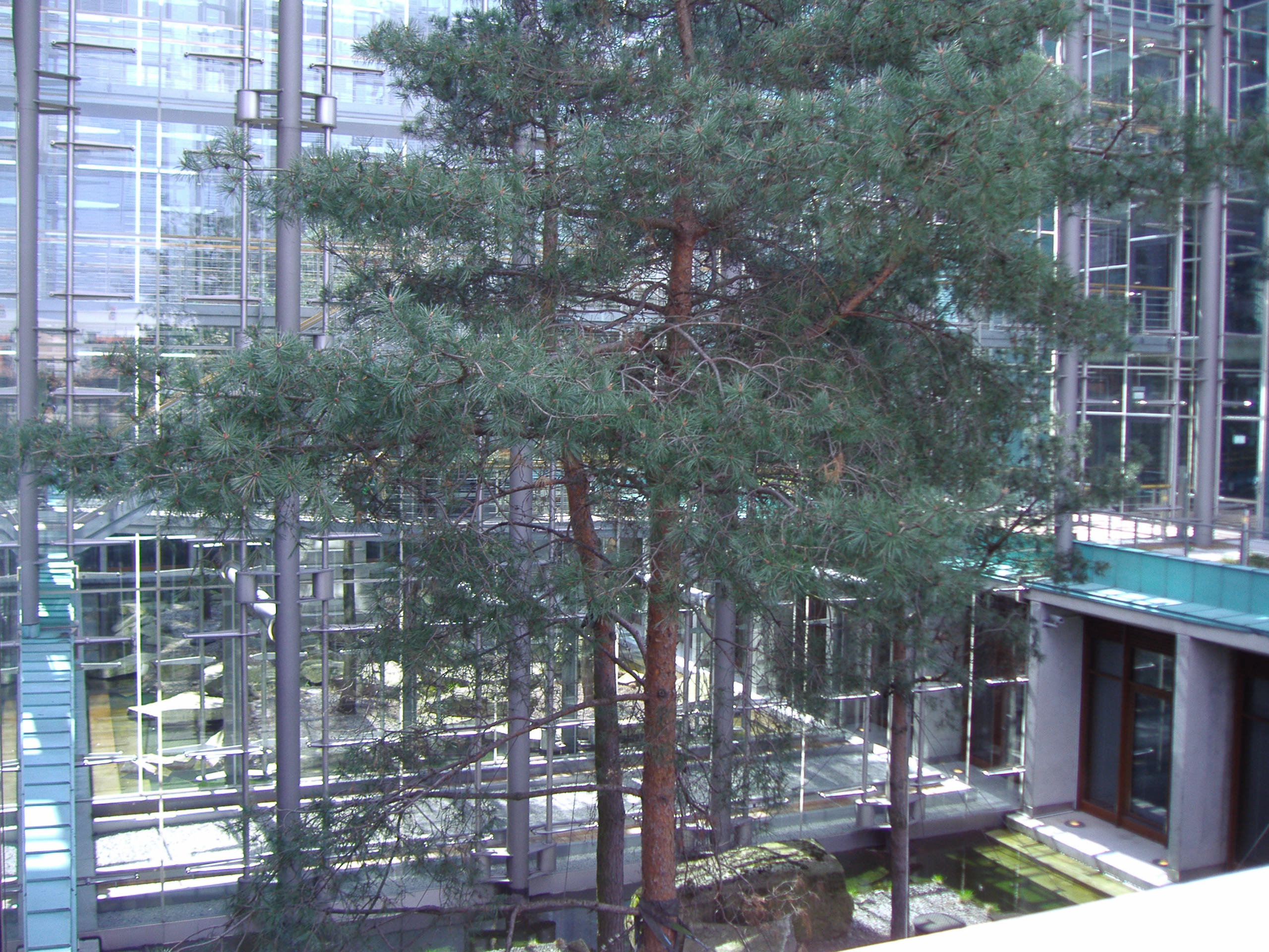 Jakob-Kaiser-Haus; artwork: conservatory by Architekten WES & Partner